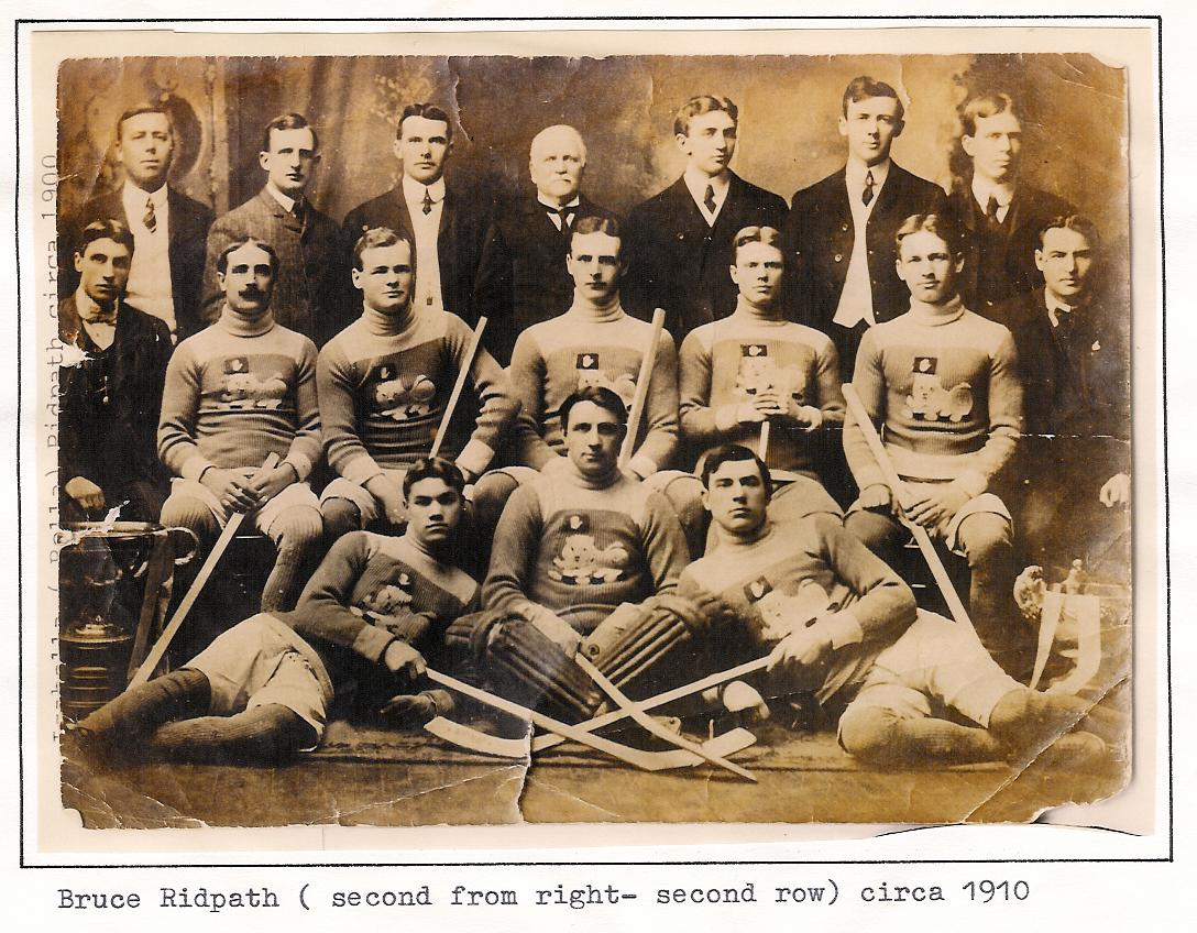 Ridpath Family Archives - owner: Joseph Ian Ridpath - The team is the Toronto Marlboros, approximately in 1905.